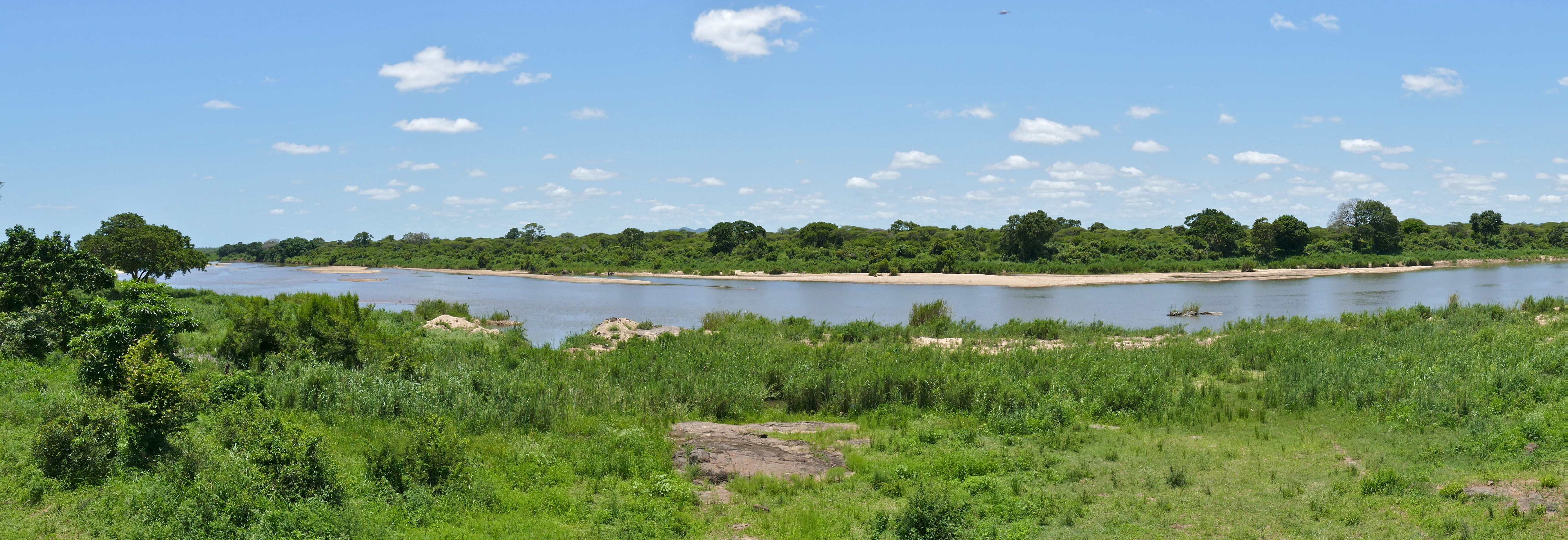 H4-2 Road East of Lower Sabie, Kruger NP, SOUTH AFRICA